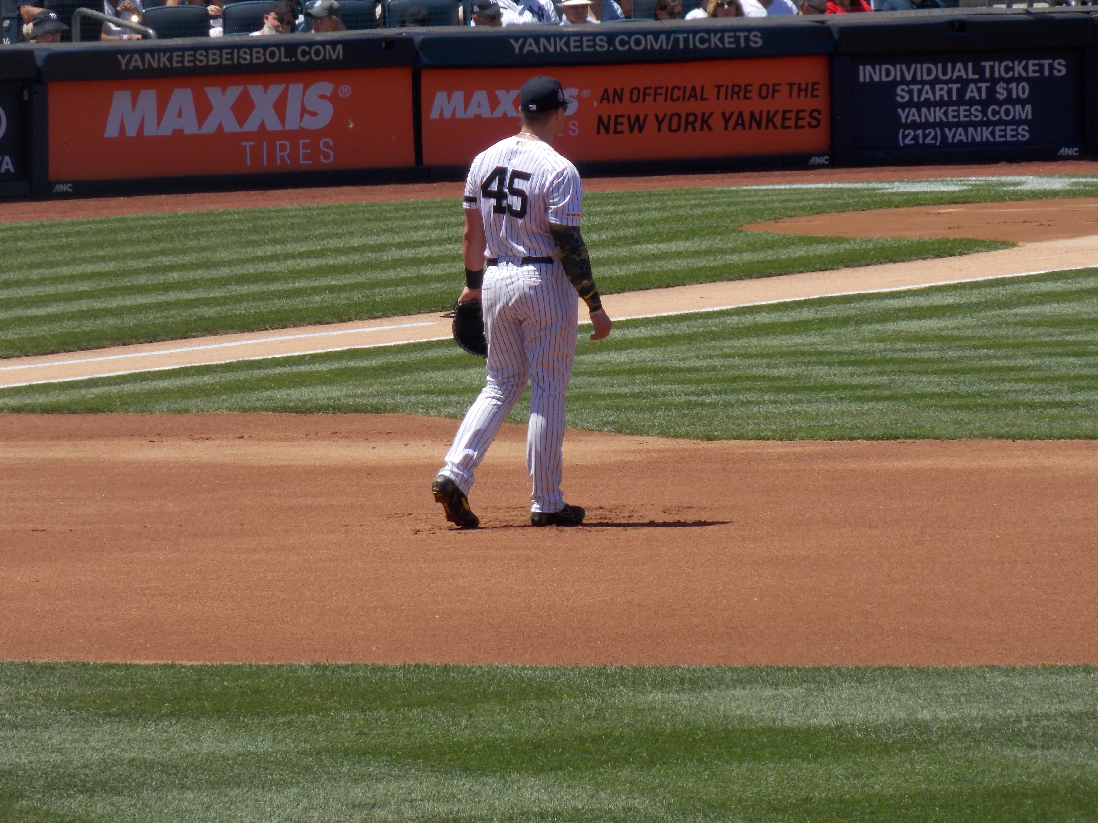 Luke Voit playing first base for the Yankees in 2019